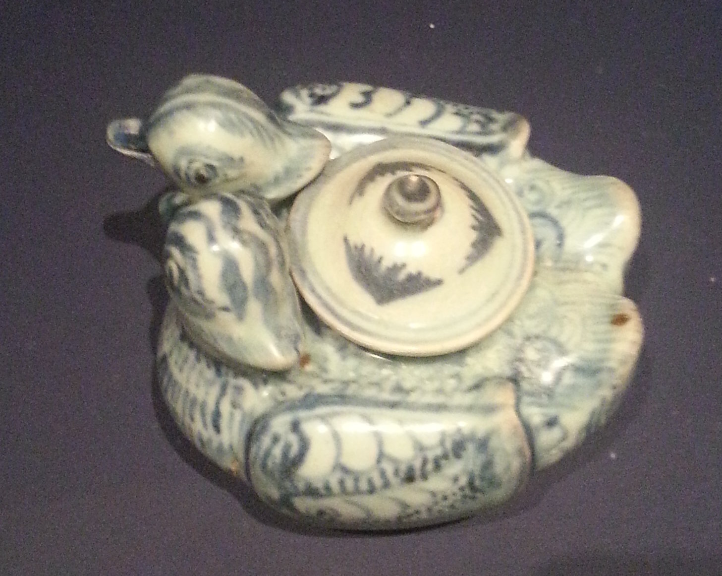 Jingdezhen made, Yuan Dynasty era porcelain teapot representing two Mandarin ducks. Found in Philippines, displayed during an exhibition called "Philippines, archipelagos of exchanges" in 2013, in Musée du quai Branly, Paris